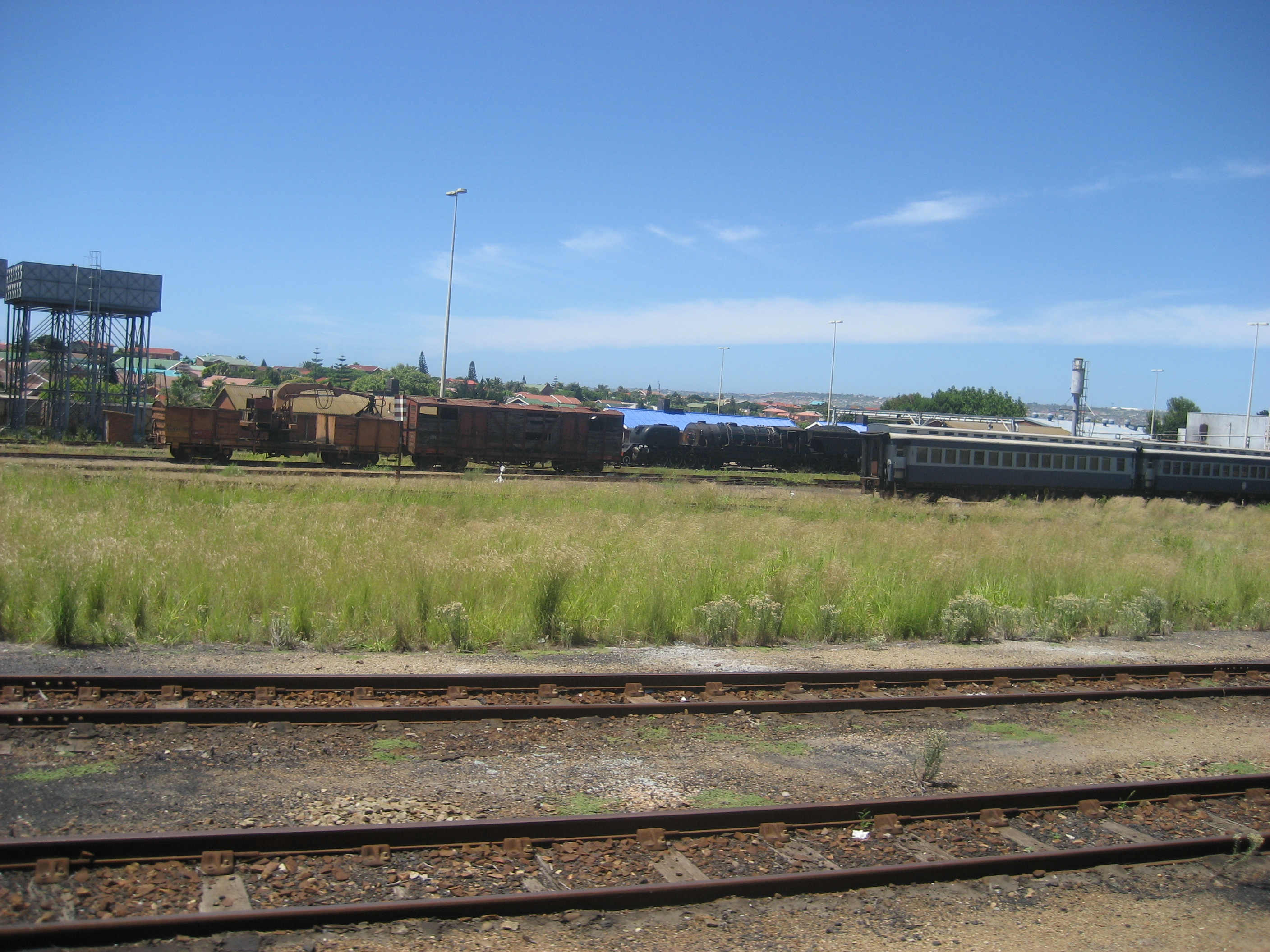 Station Voorbaai (South Africa)